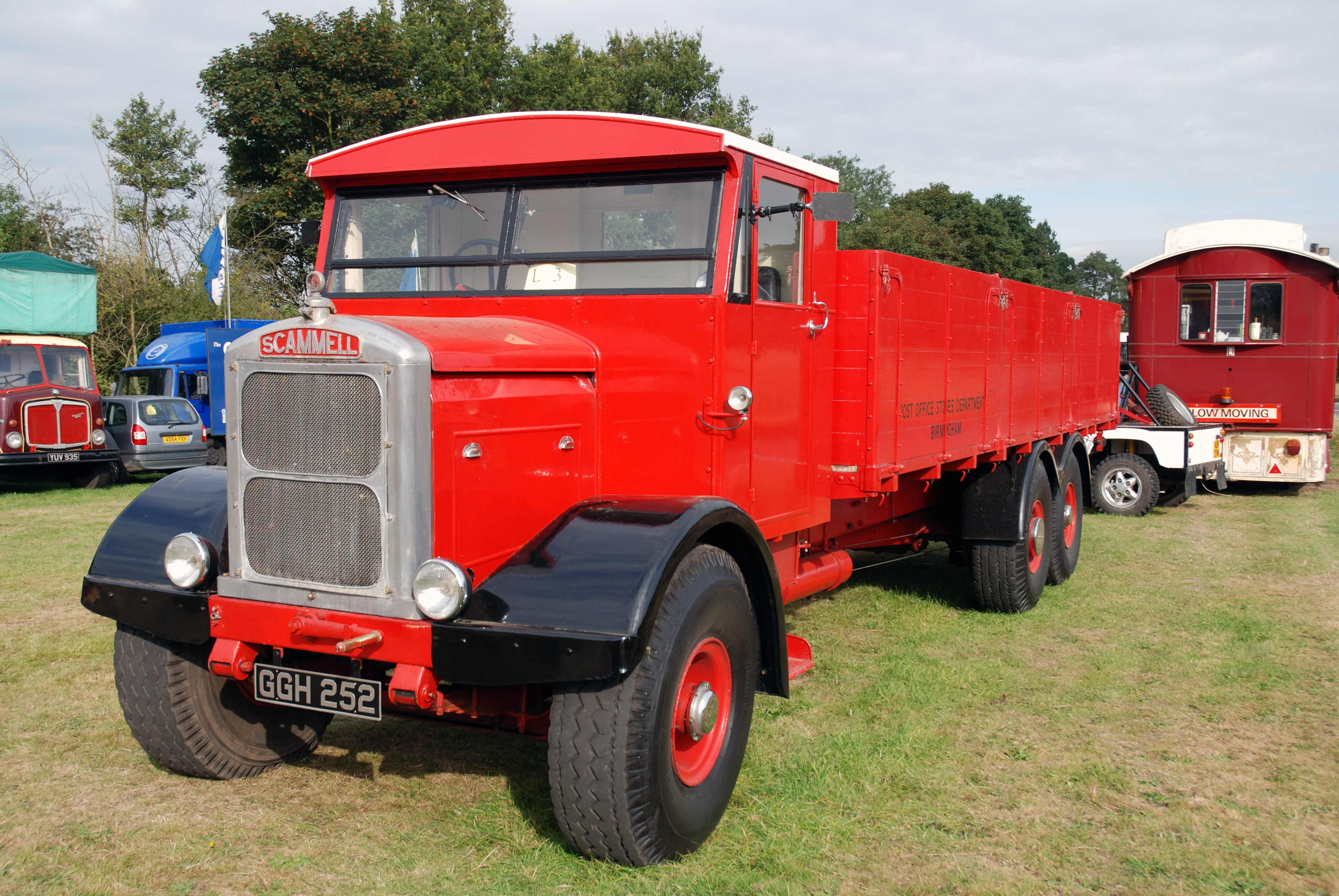 Croxley Green,Sep 2009